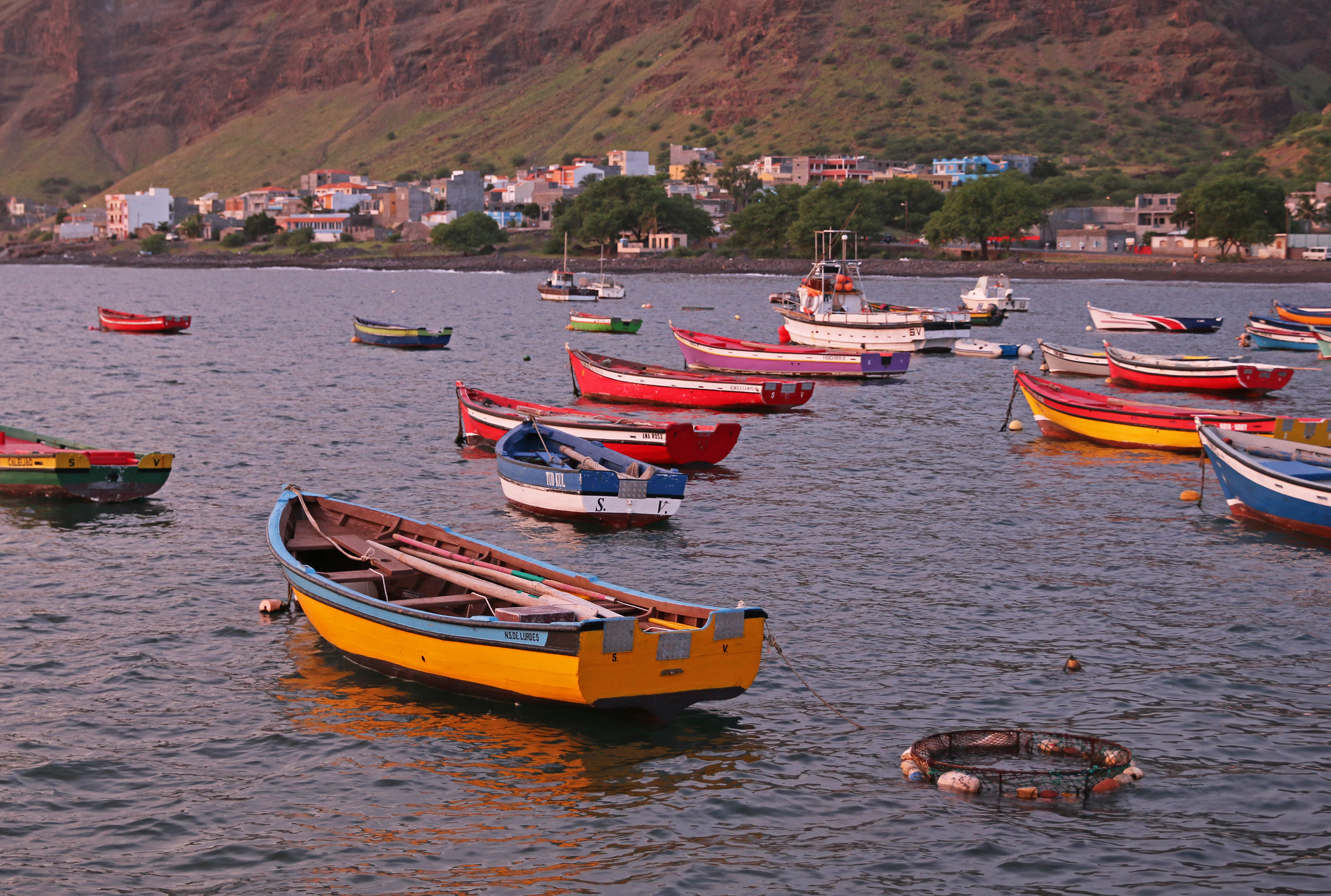 small fishing boats in the harbour of Tarrafal, São Nicolau (Kap Verde), iluminated by the evening sun